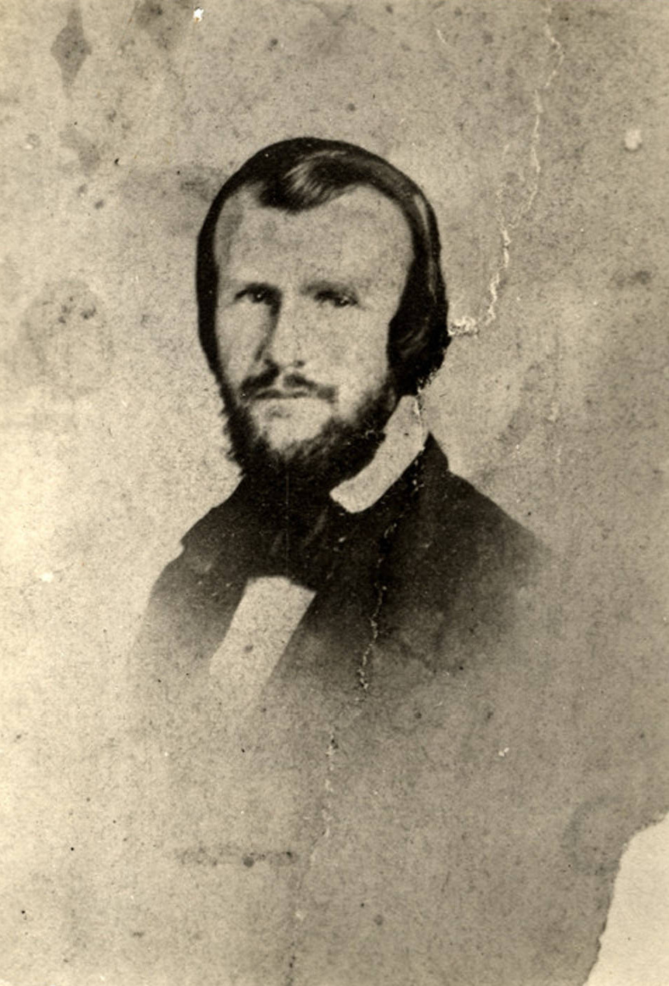 Horace Lawson Hunley, Confederate marine engineer.